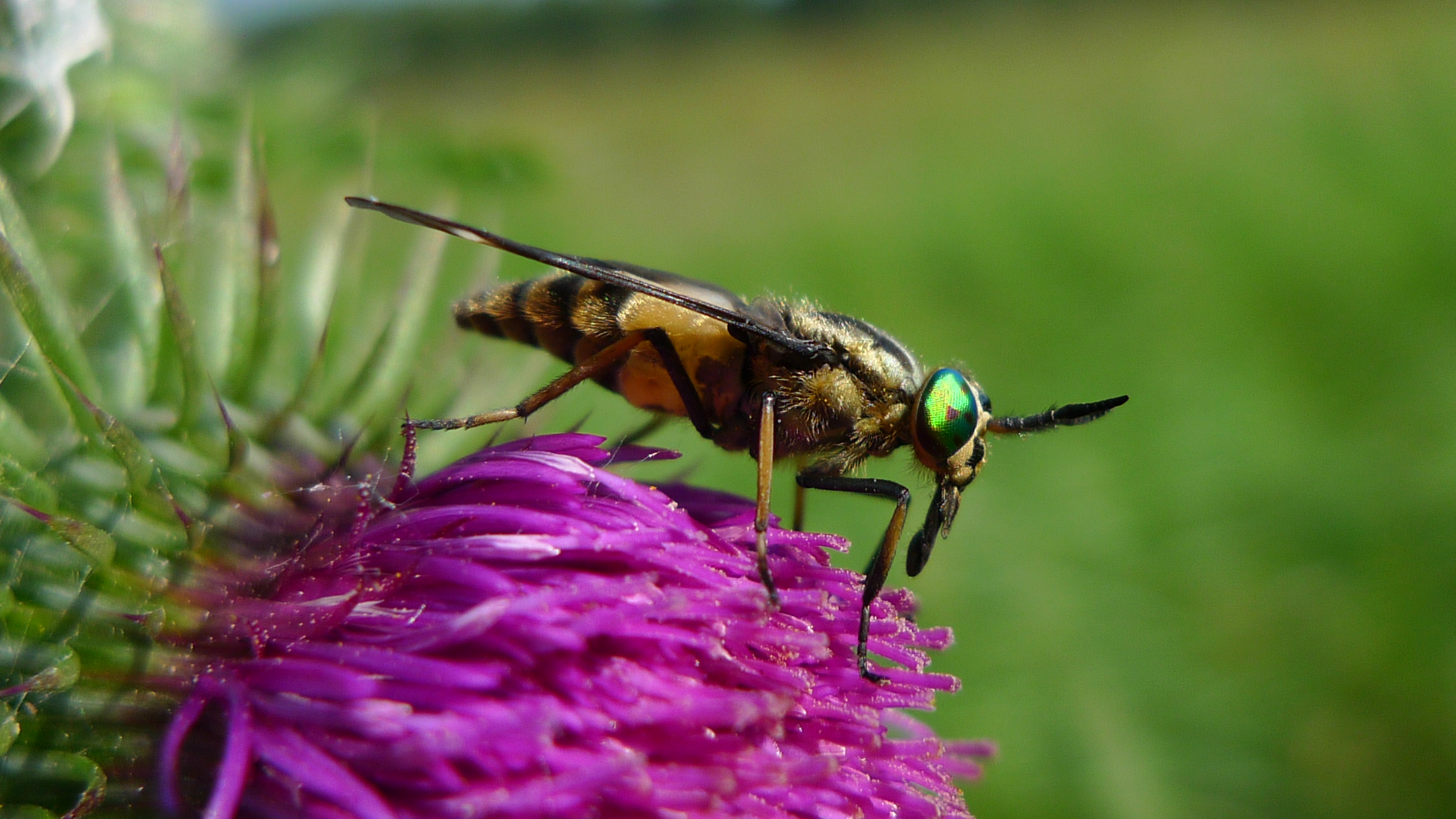 Horse-fly sideview